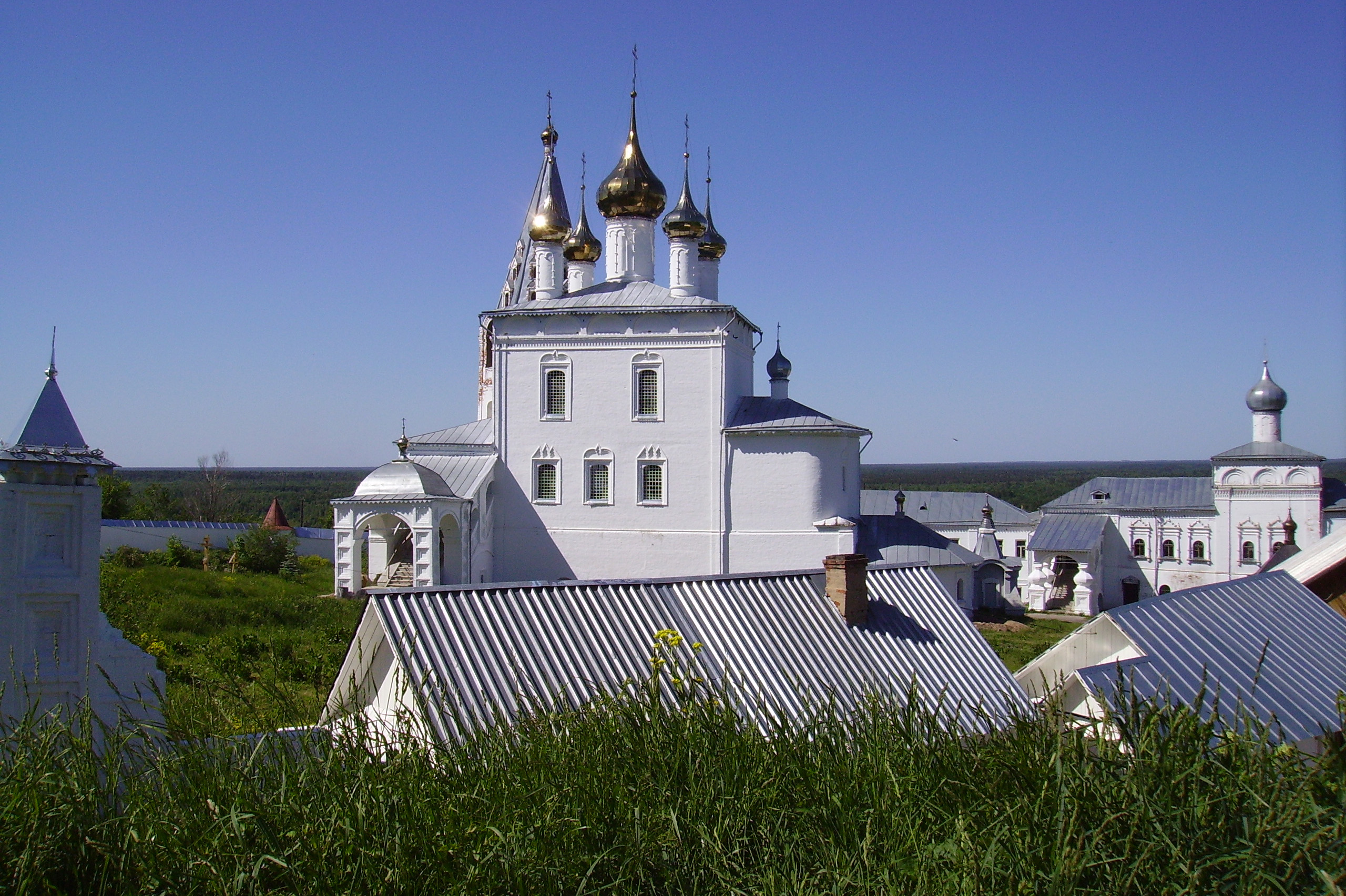 Gorokhovets. Nikolsky Monastery